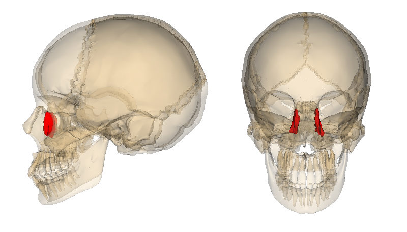 lacrimal bone. Images are from Anatomography maintained by Life Science Databases(LSDB).